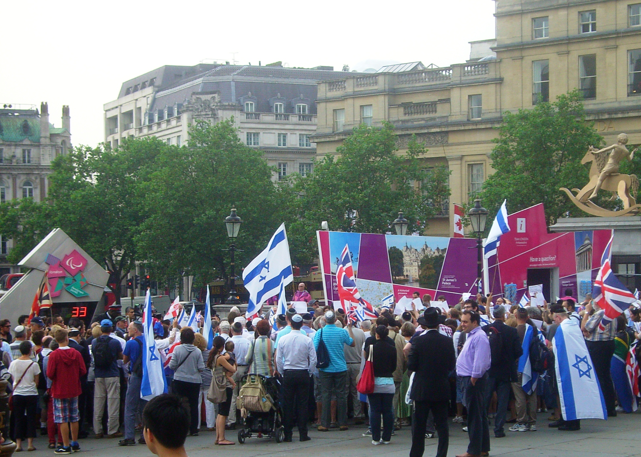 Tribute to murdered Israeli athletes of the 1972 Olympics, Trafalgar Square, London